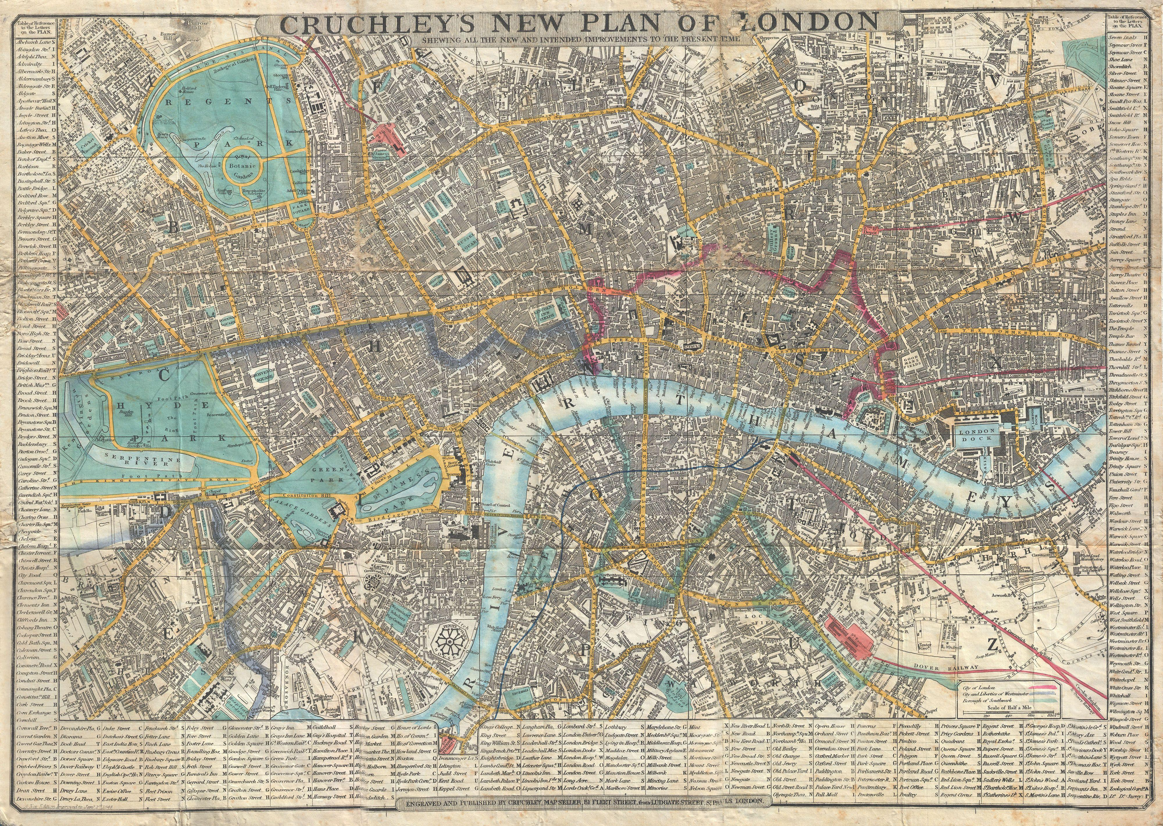 This is a very attractive example of G. F. Cruchley's highly desirable 1848 Map of London, England. Covers London from Hyde Park in the west to the London Docks in the east. Extends north to include all of Regents Park and south as far as the South Western Terimini and Vauxhill Gardens. Offers full and color and detail to the street level with individual buildings noted. Map surrounded on left, right and bottom by a street by street index of the city. Title area to center. Backed on linen and bounded into its original linen folder. Cruchley issued various editions of this map from 1827. This issue, 1848, is not in the Hogwego catalogue and is one of the rarest.